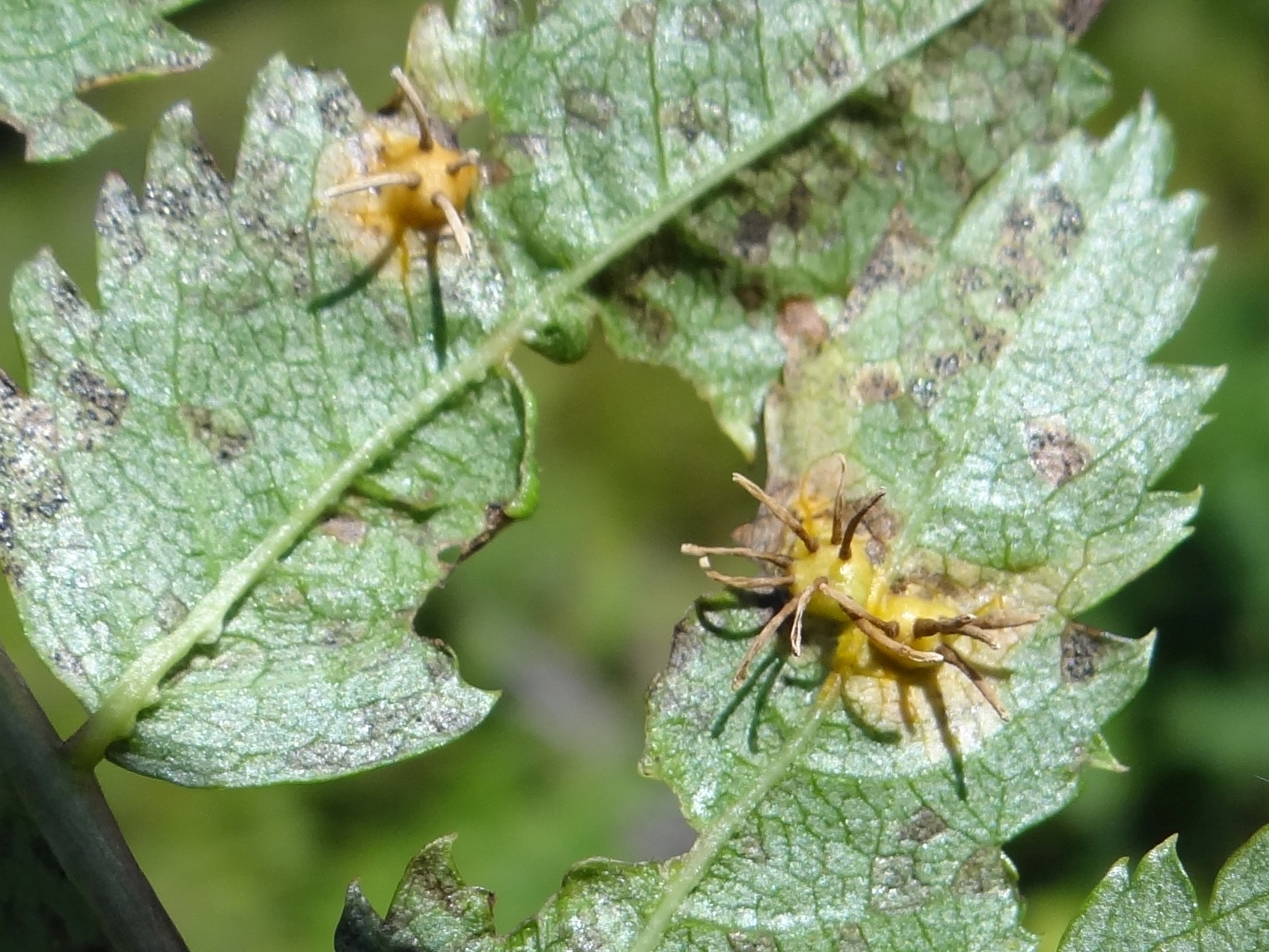 Gymnosporangium cornutum on Sorbus aucuparia (location:Slovakia, Nízke Tatry)